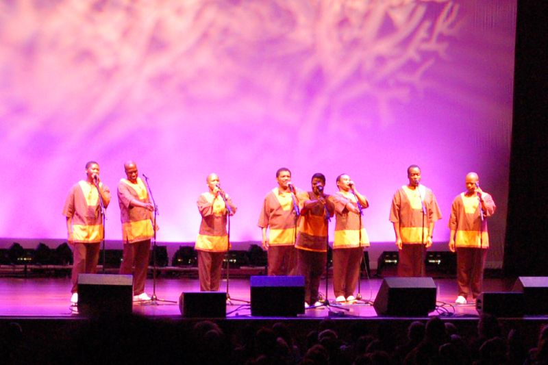 ...I can hardly describe how incredible it was to see and hear them live!